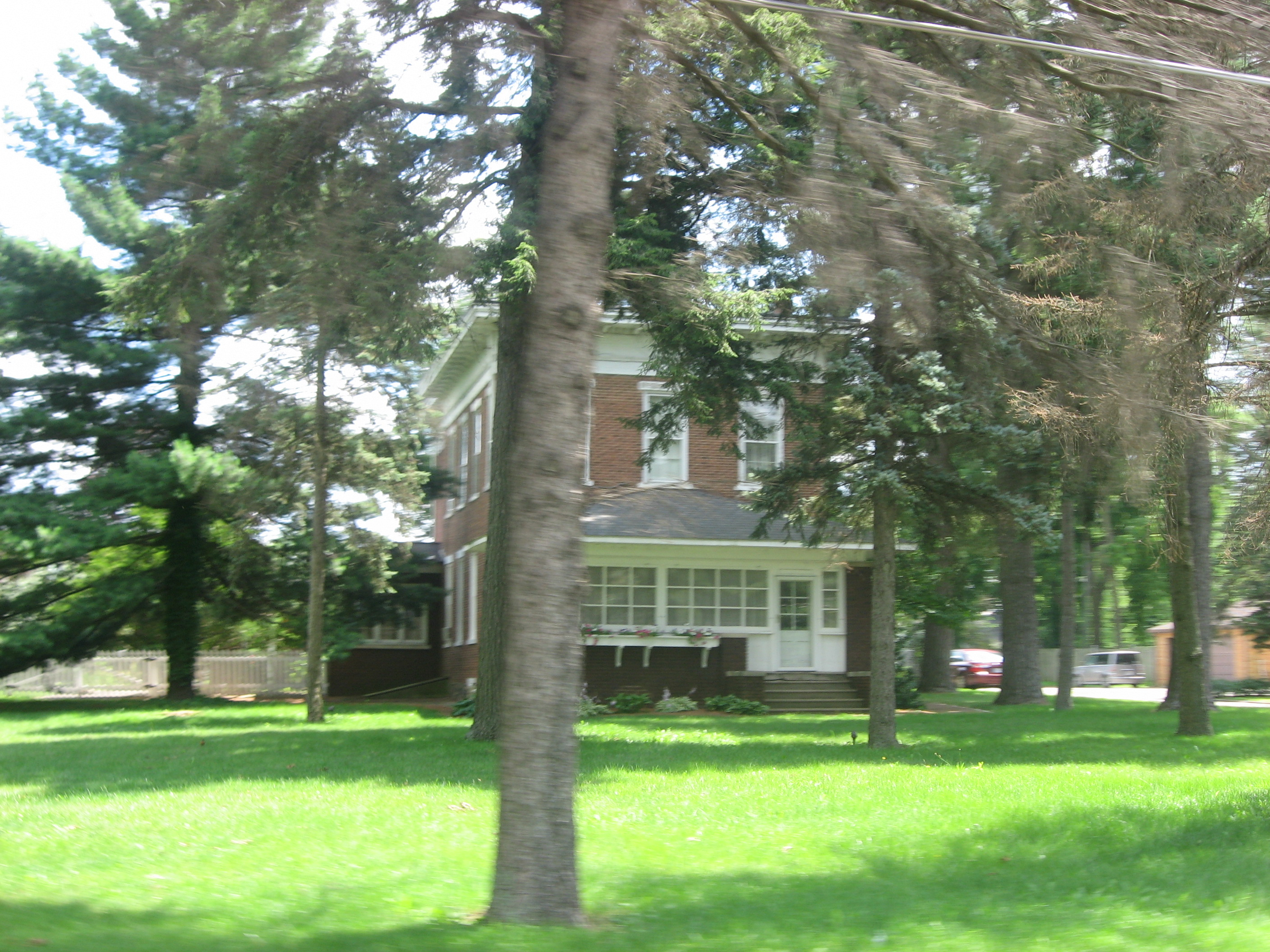 Streetside view of the Violett-Martin House, located at 2612 S. Main Street (State Road 15) in Goshen, Indiana, United States. Built in 1855, it is listed on the National Register of Historic Places.